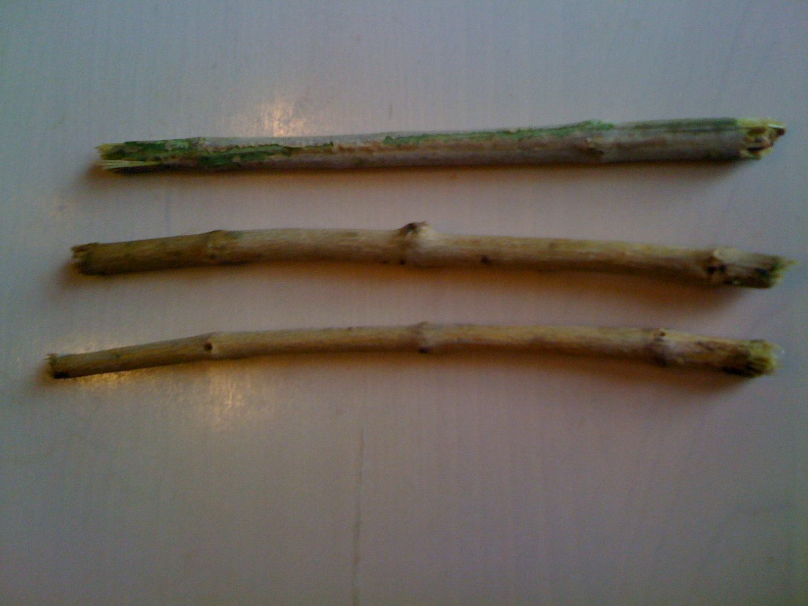 Traditional Somali miswak (rumeey) sticks.